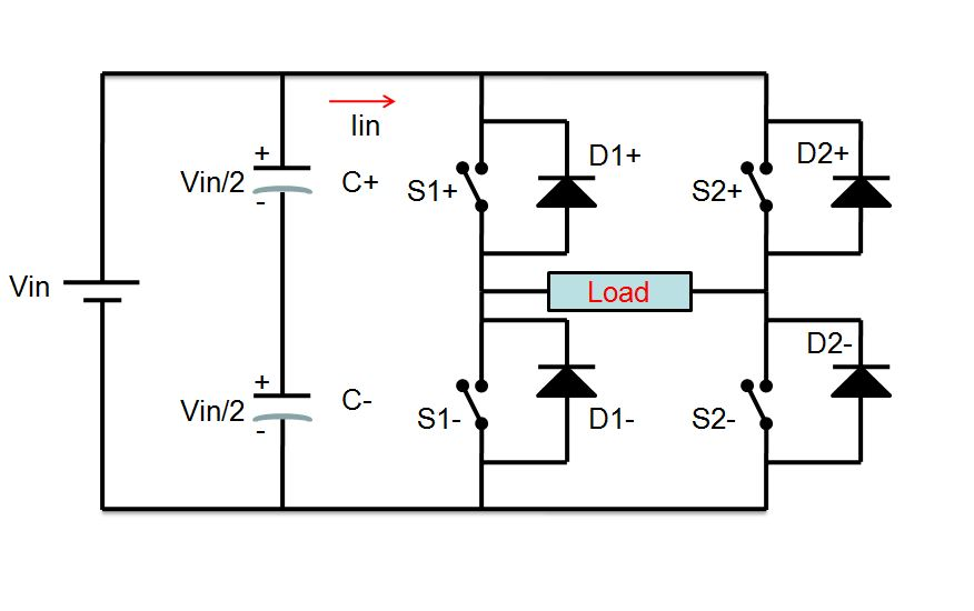 Single Phase Full Bridge Inverter